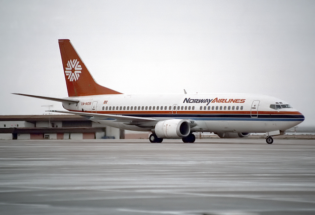 Norway Airlines Boeing 737-33A LN-NOS at Faro Airport